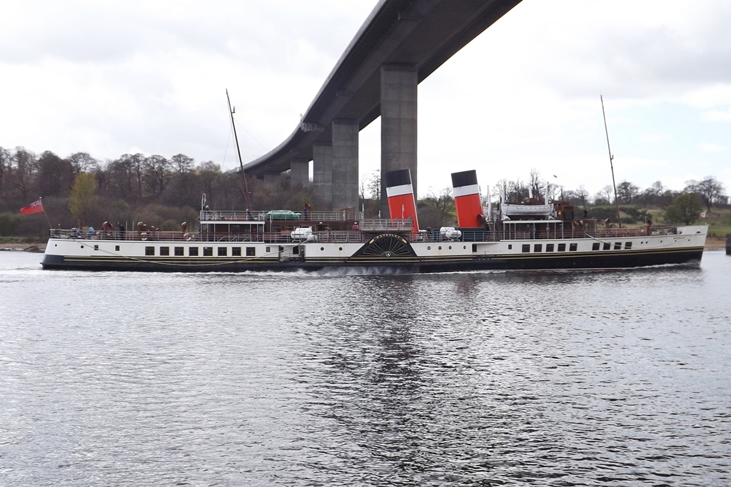 PS Waverley heads down the Clyde, possibly on a pre-season test run